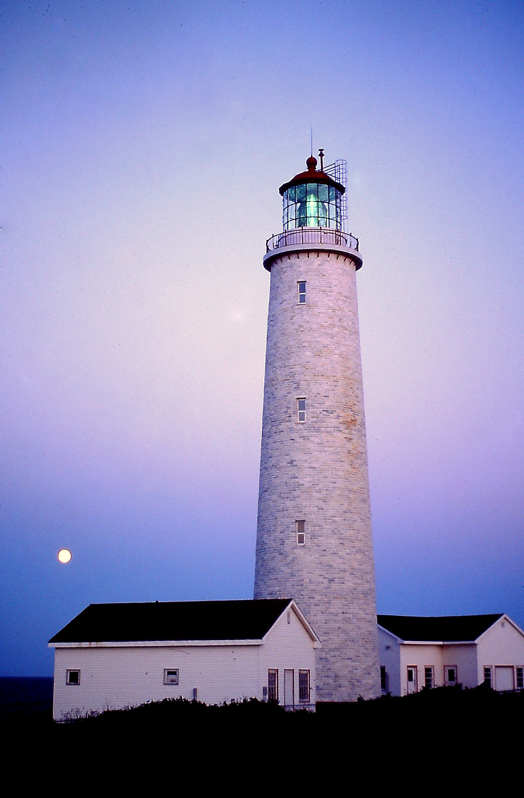 Cap-des-Rosiers